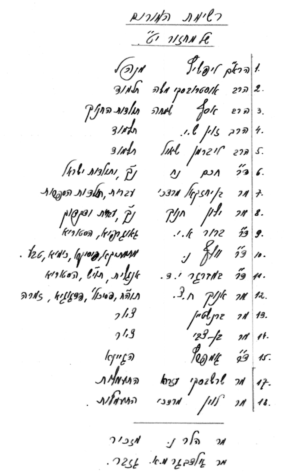 Lifshitz College of Education teachers list